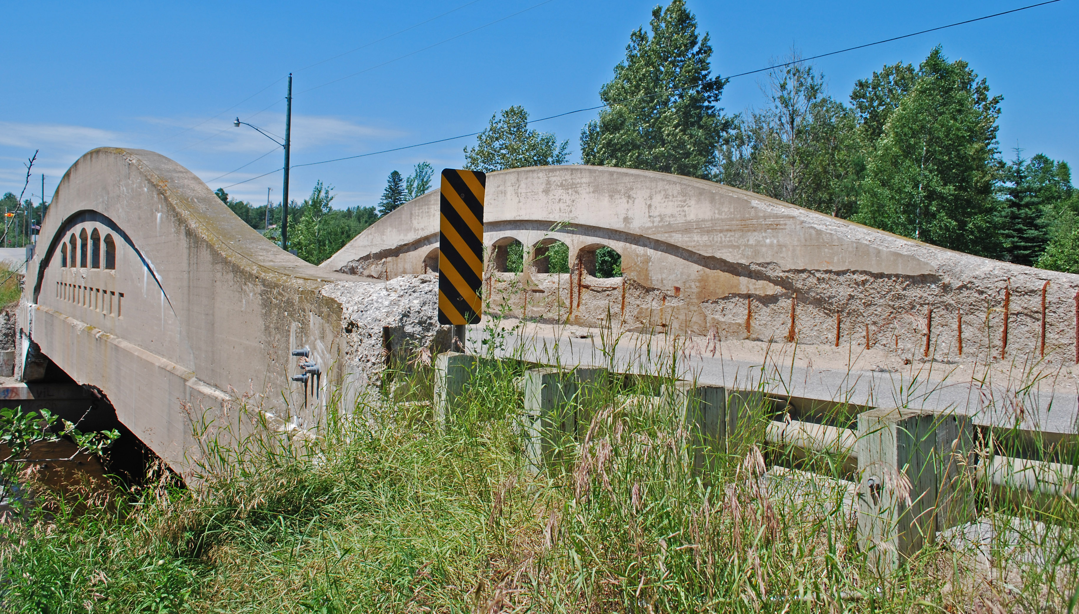 Ten Curves Road-Manistique River Bridge Schoolcraft County MI